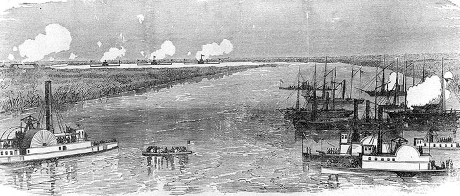 Bombardment of Fort McAllister, Georgia, 3 March 1863